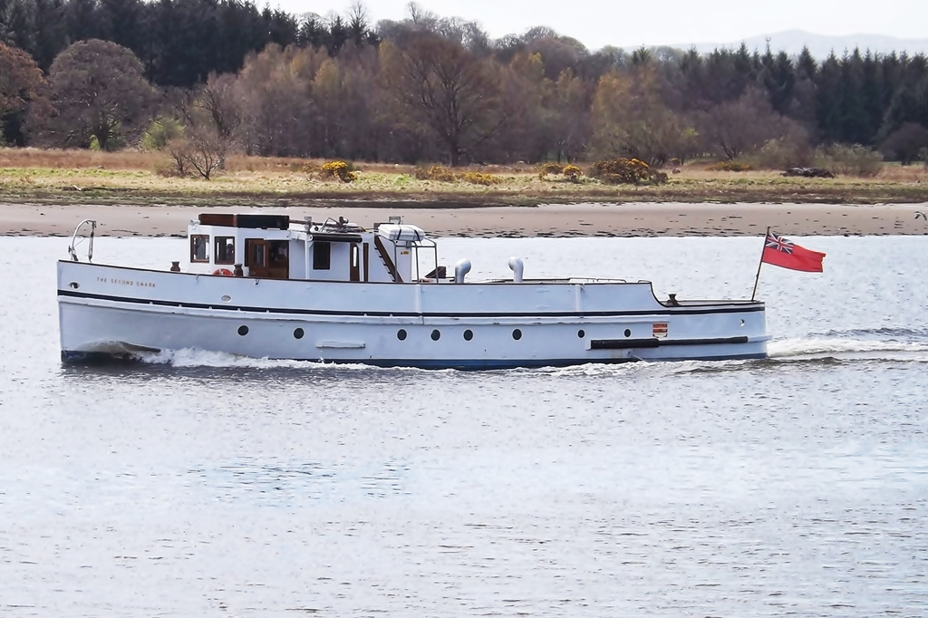 MV The Second Snark headed up river seen here passing Bowling, looking good for a ship built in 1938!!!